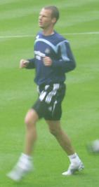 Image of David Rozehnal warming up before a match.